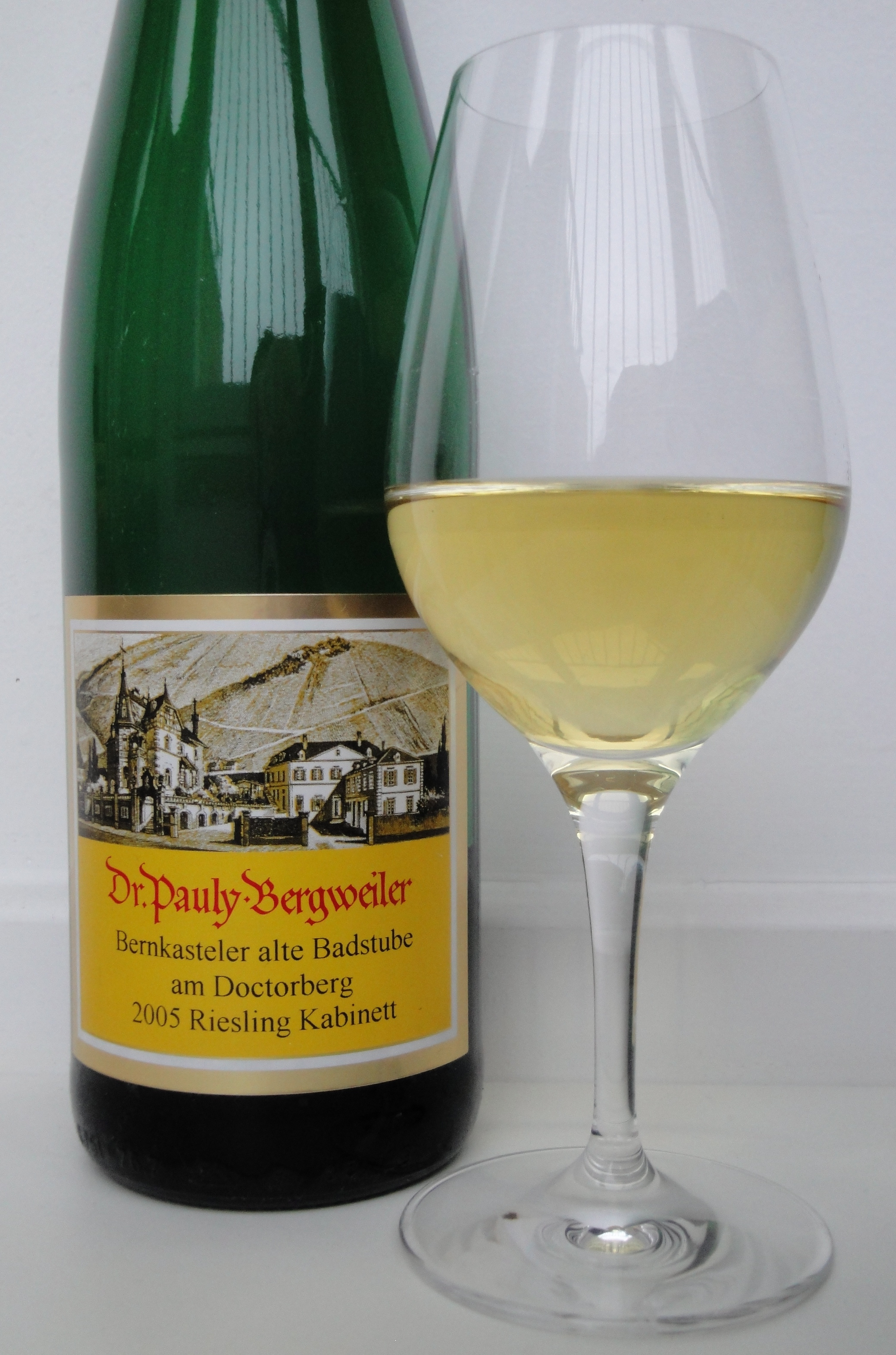 Bernkasteler alte Badstube am Doctorberg Riesling Kabinett 2005, a wine from Dr. Pauly-Bergweiler in the Mosel wine region